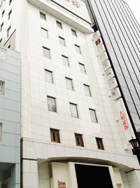 jujiya building